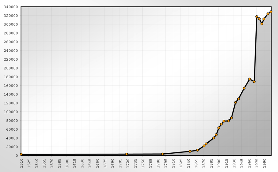 This image shows the population statistics of Bielefeld (Germany).